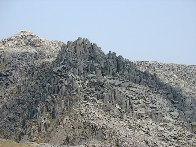 The Frost Shattered Castell y Gwynt. The majestic Castell y Gwynt is here viewed from Bwlch y Ddwy Glyder. The summit of Glyder Fach towers left.